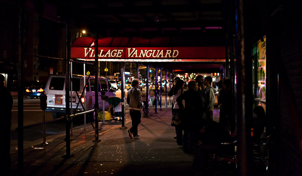 The Village Vanguard (photo Josh Staiger)